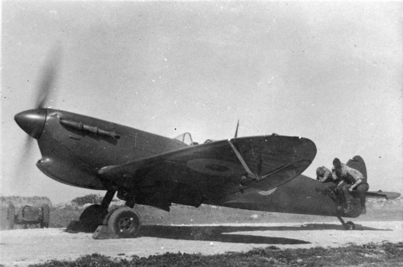 Aircraft of the Royal Air Force, 1939-1945- Supermarine Spitfire. Spitfire PR Mark IV, BP932, tropicalised aircraft fitted with a Vokes air filter, on the ground during an engine test, probably while serving with No. 683 Squadron RAF at Luqa, Malta.